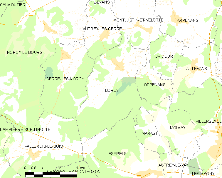 Map of French municipality